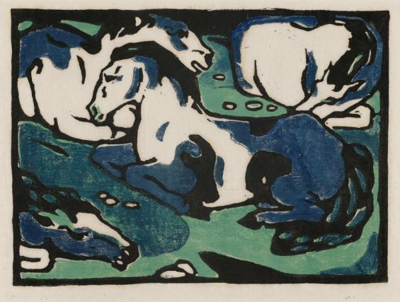 "Horses Resting," color woodcut, by the German artist Franz Marc. 16.8 cm x 22.7 cm (6 5/8 in. x 8 15/16 in.) Courtesy of the Museum of Fine Arts, Boston, Boston, Massachusetts.